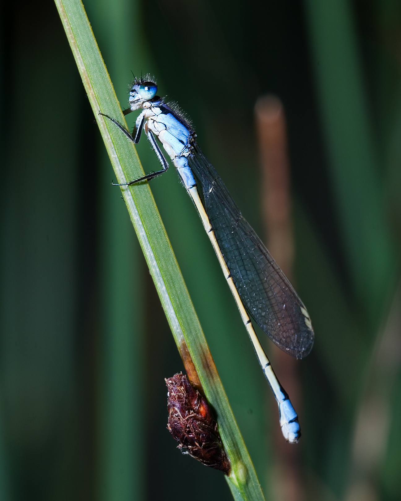 Female common Bluetail (Ischnura heterosticta tasmanica) Camera data Camera Canon EOS 400D Lens Canon EF 70-200mm f4L w/ 36mm + 24mm + 12mm extension tubes Flash Flash left Focal length 149 mm Aperture f/11 Exposure time 1/200 s Sensivity ISO 100